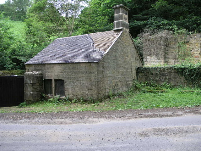 Lumsdale Mills. These water powered mills are thought to date from the 17th century.